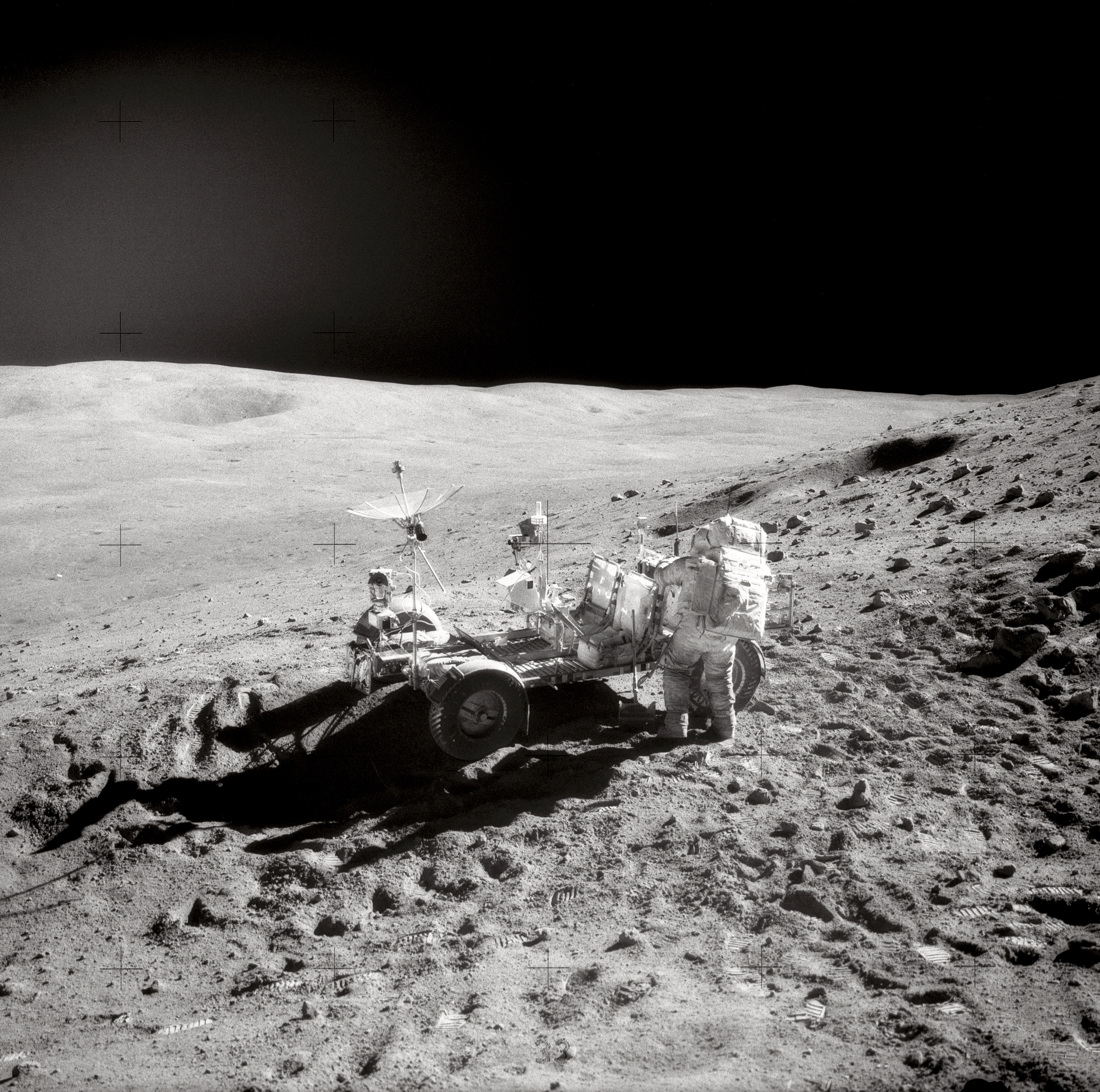 Astronaut John W. Young, Commander of the Apollo 16 mission, replaces tools in the hand tool carrier at the aft end of the "Rover" Lunar Roving Vehicle (LRV) during the second Apollo 16 extravehicular activity (EVA-2) at the Descartes landing site. This photograph was taken by Astronaut Charles M. Duke Jr., Lunar Module pilot. Smokey Mountain, with the large Ravine crater on its flank, is in the left background. This view is looking Northeast. This is now also available at flickr Project Apollo Archive, AS16-110-17960